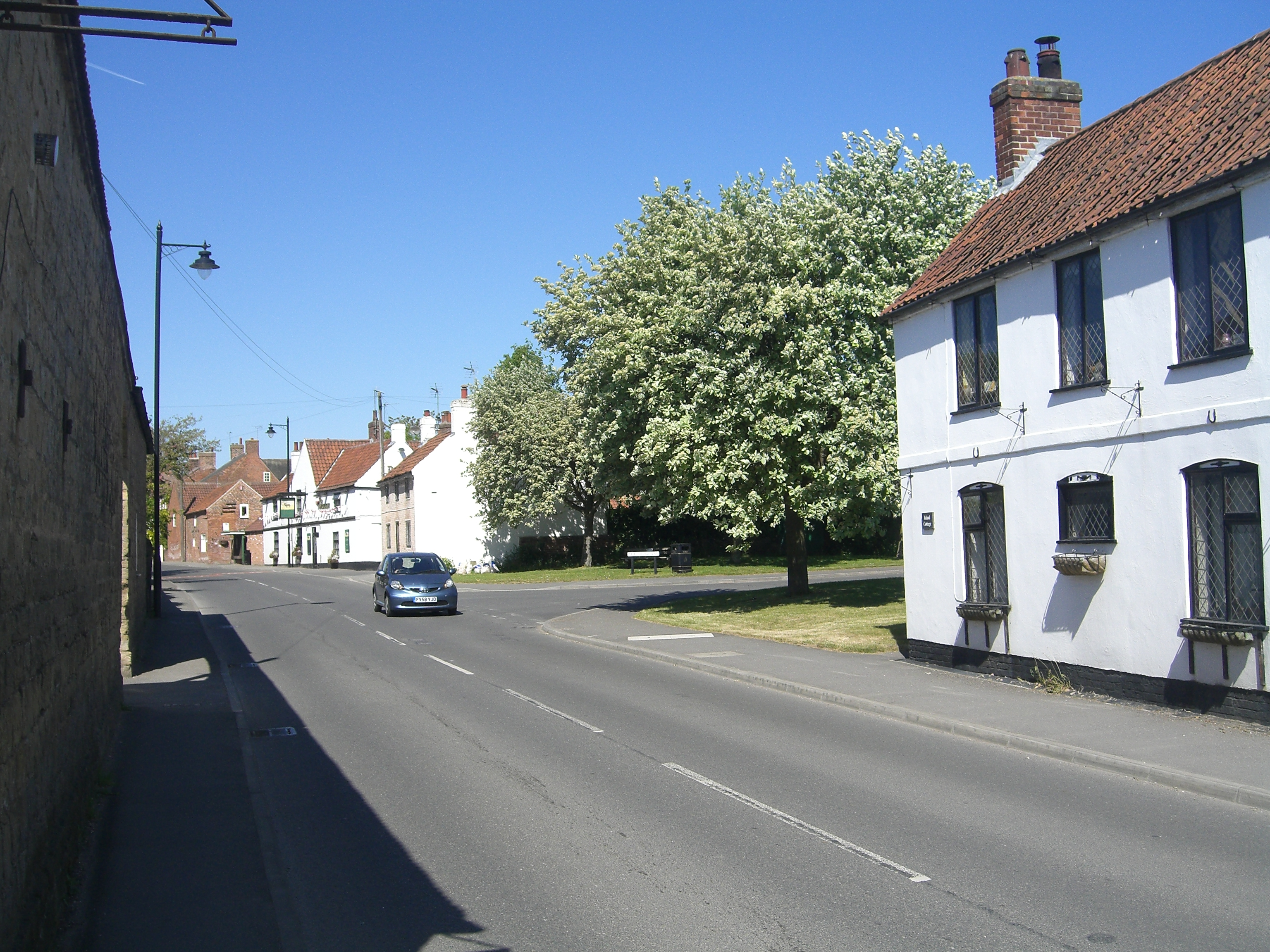 Farnsfield in Nottinghamshire